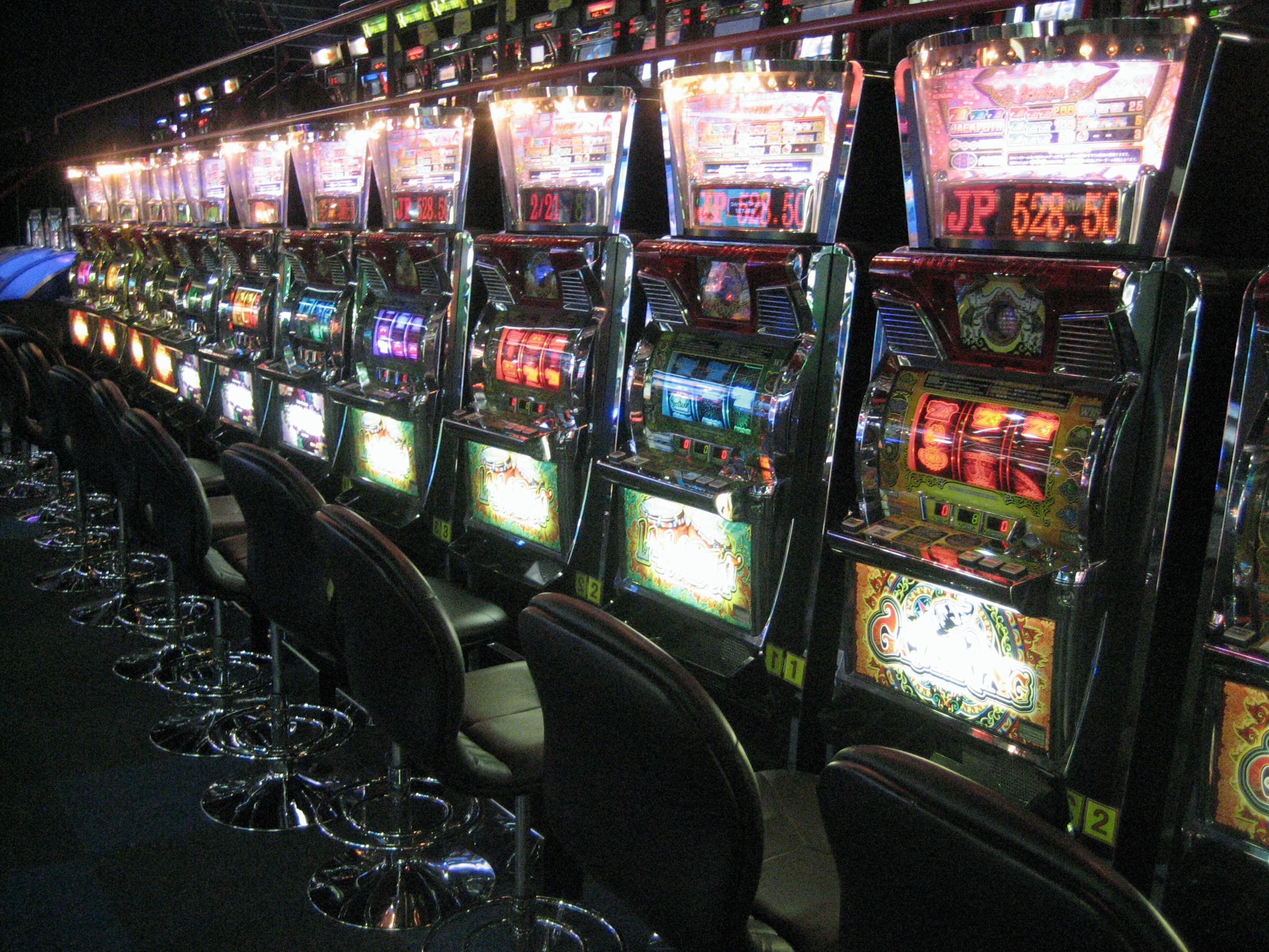 Slot machine of Japan.